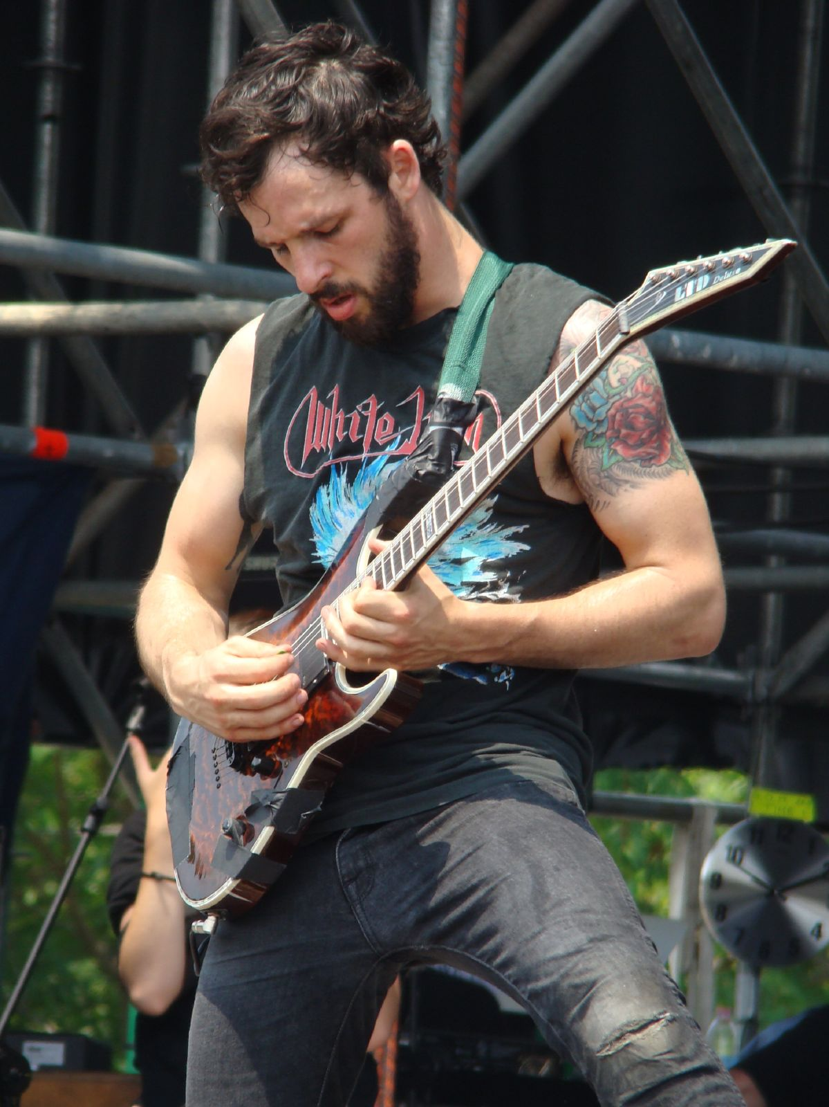 Gods of Metal 2008